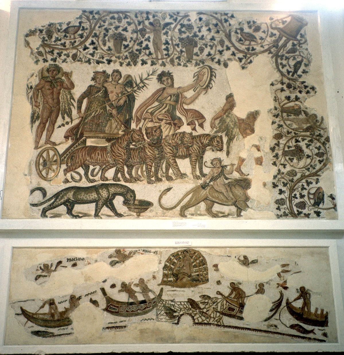 Triumph of Bacchus. Ancient Roman mosaic, Sousse Museum (Tunisia).